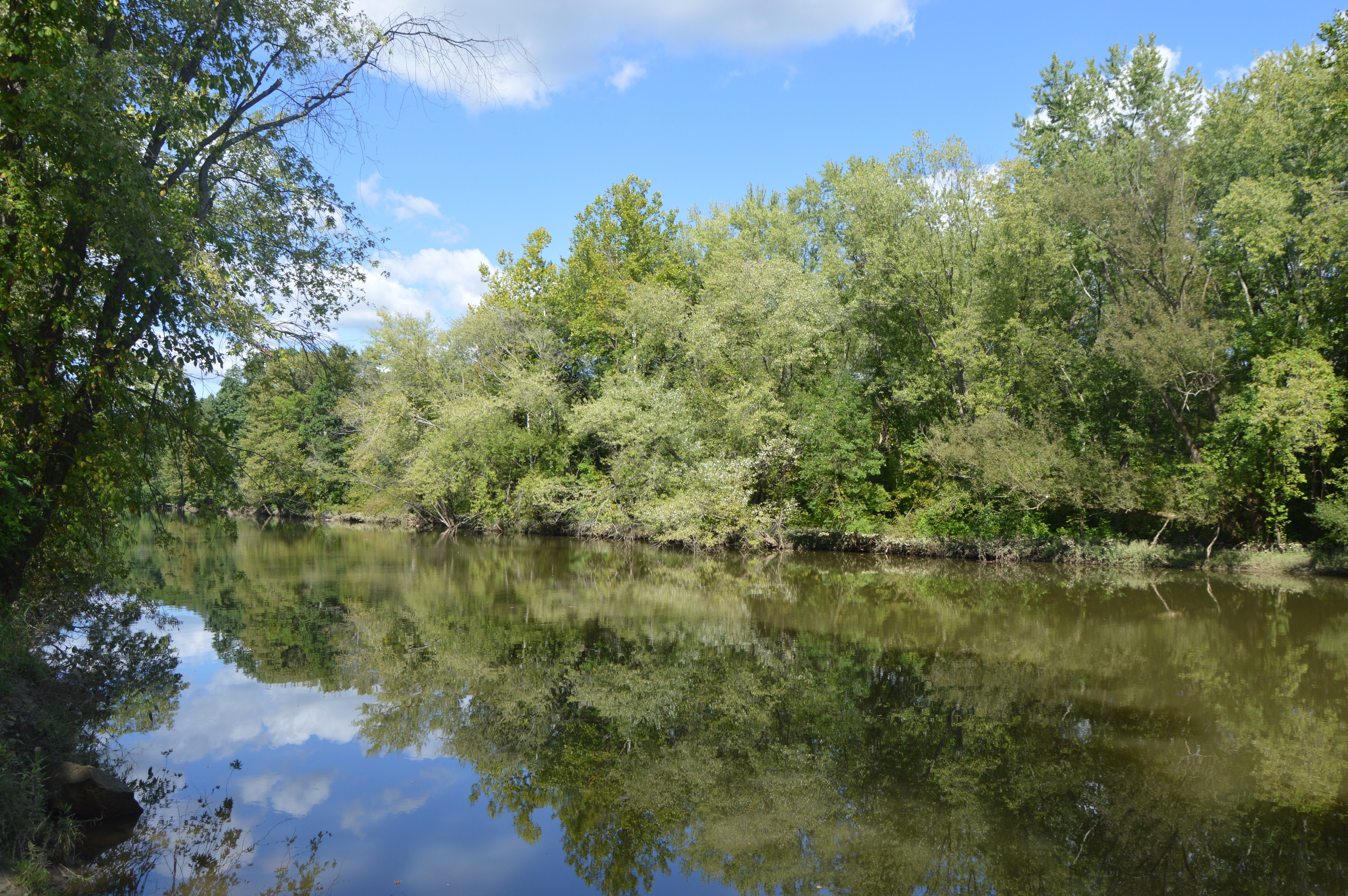 Looking northward (upstream) along the Shenango River from under the Valley Road bridge in Jefferson Township, Mercer County, Pennsylvania, United States. This area is part of the Big Bend Historical Area, a historic district that is listed on the National Register of Historic Places.